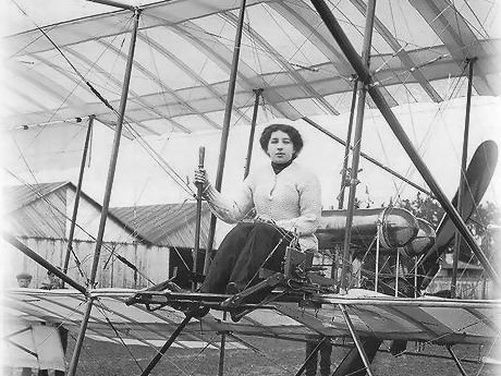 Lidiya Zvereva (1890-1916). first Russian women aviator